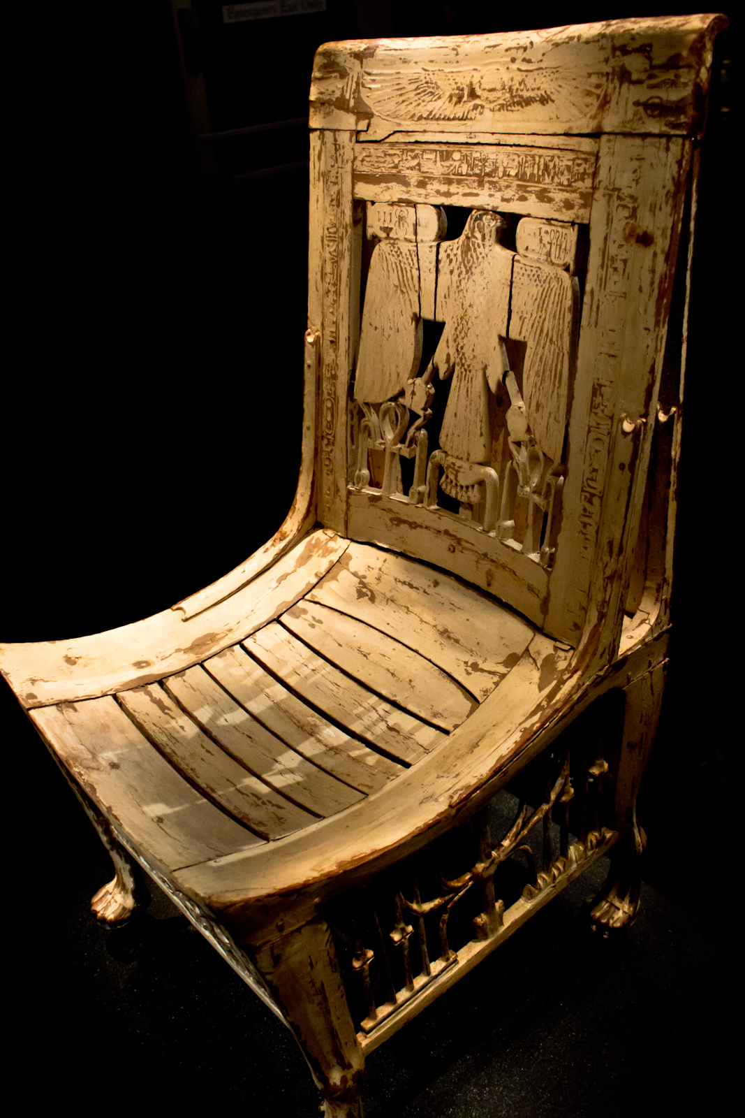 Tutankhamun's chair from his royal tomb.